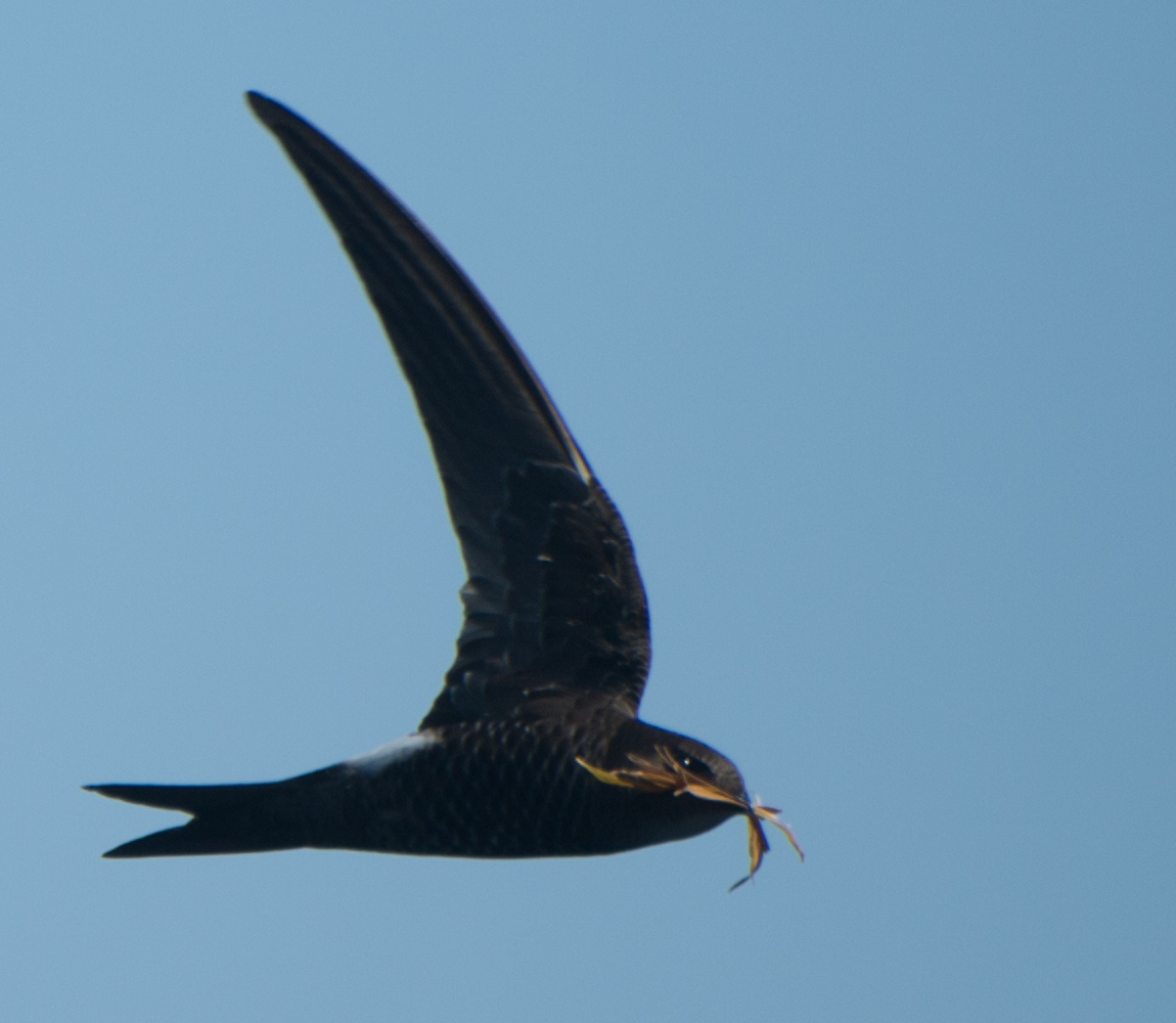 A Pacific Swift flying in Japan. It has got nesting material, probably dry grass, in its beak.